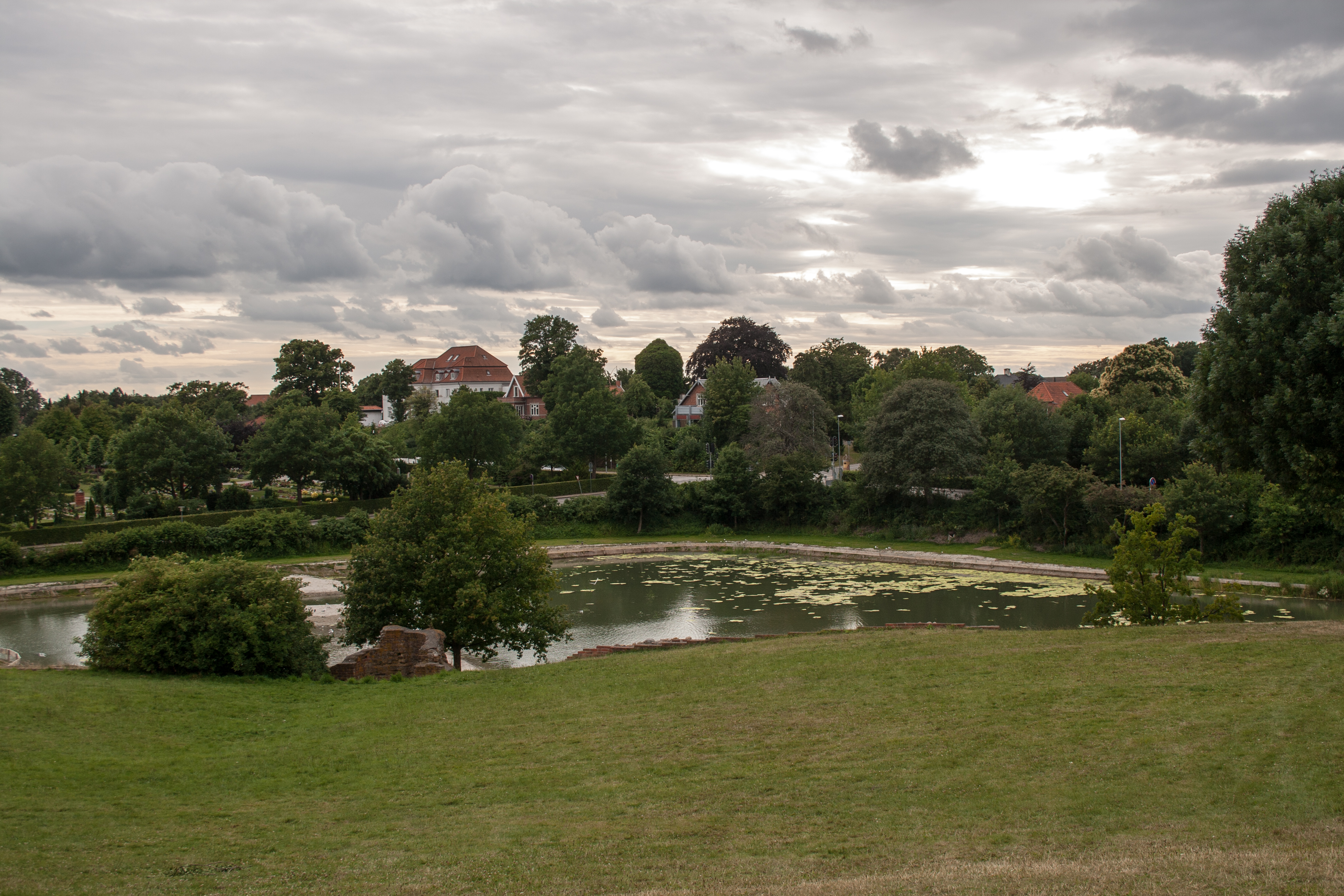 Vordingborg, view from the Castle Hilllabel QS:Len,"Vordingborg, view from the Castle Hill" label QS:Lhu,"Vordingborg, kilátás a várdombról"